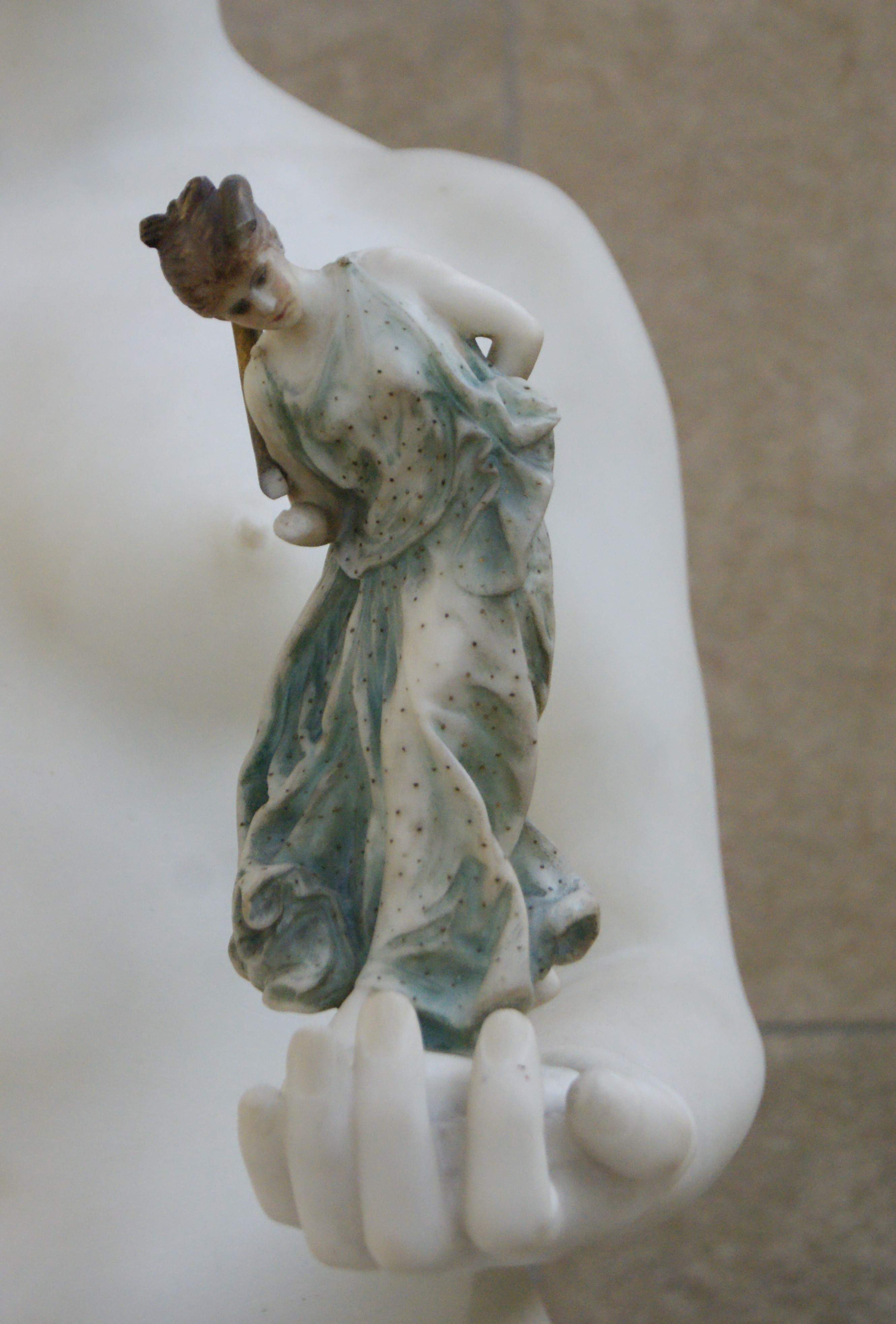 Tanagra par Jean Léon Gérome